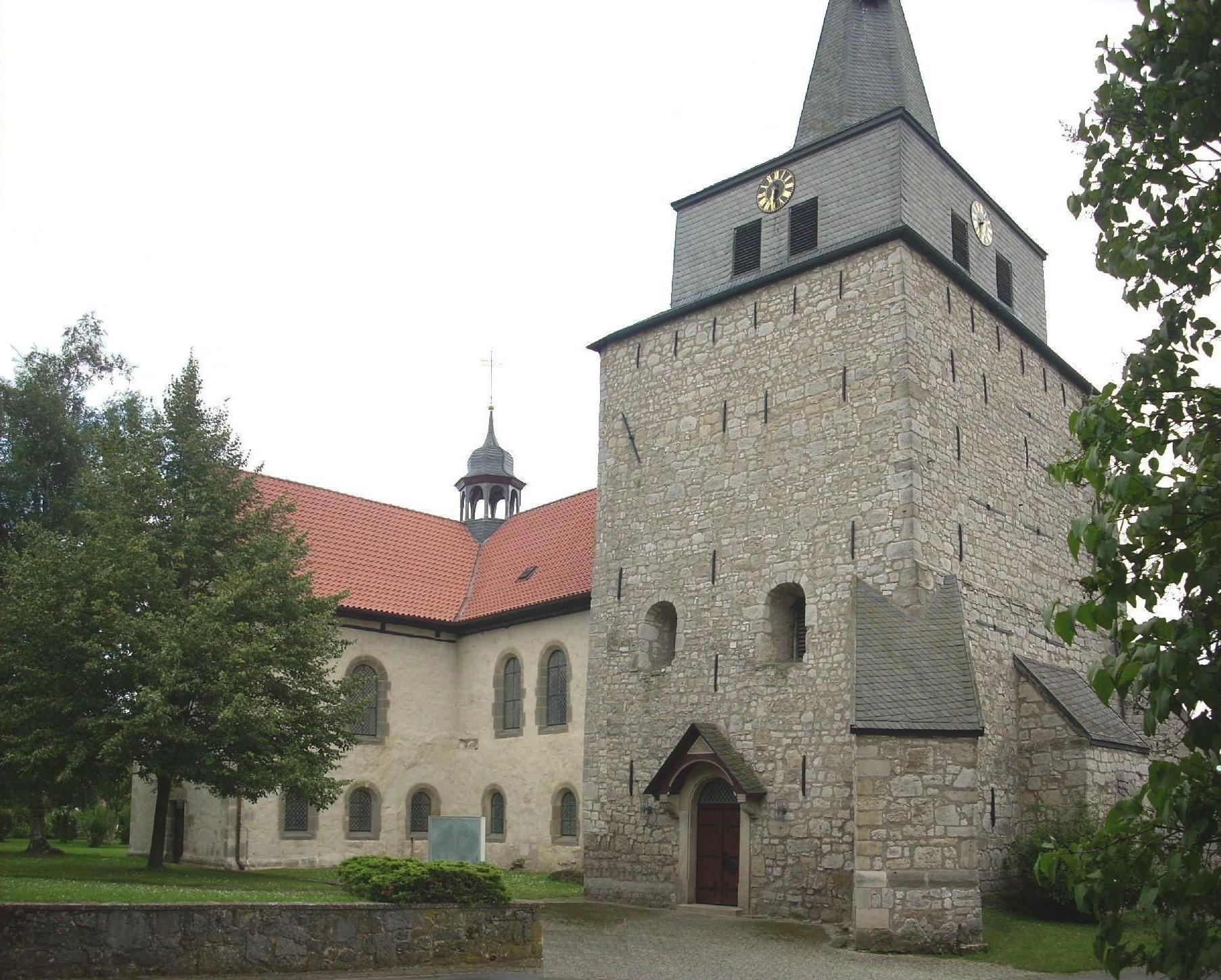 Lühnde (District of Hildesheim, Germany), St. Martin Lutheran Church